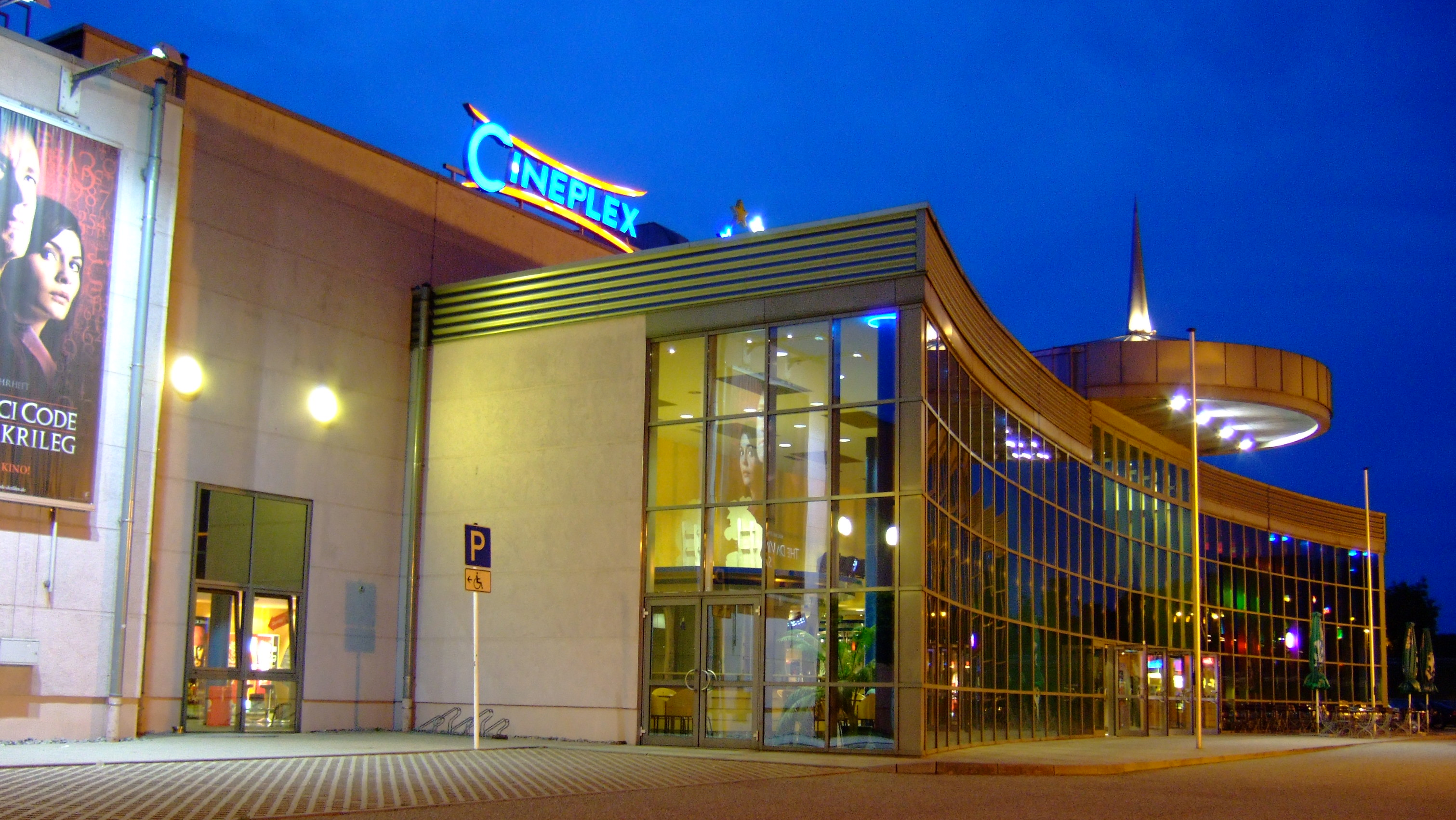 Modern Cinema "Cineplex Neckarsulm" (built 1997) of the City Neckarsulm, Germany